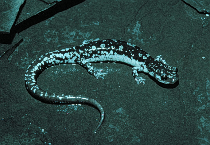 Plethodon fourchensis